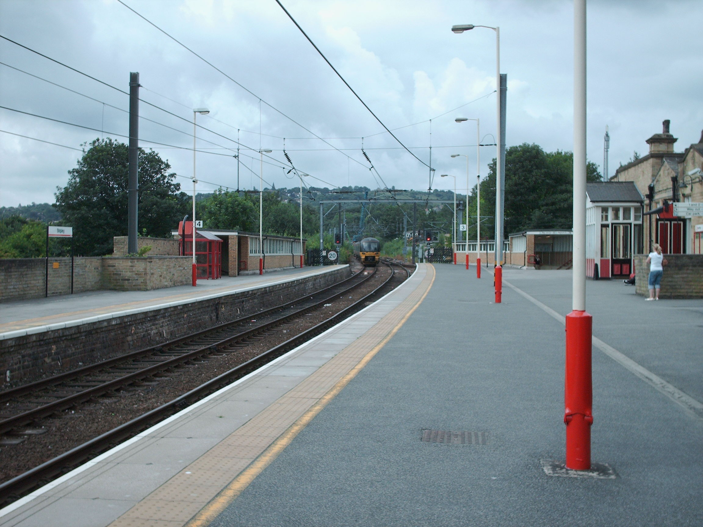 Shipley railway station, West Yorkshire, England. Platform 3.